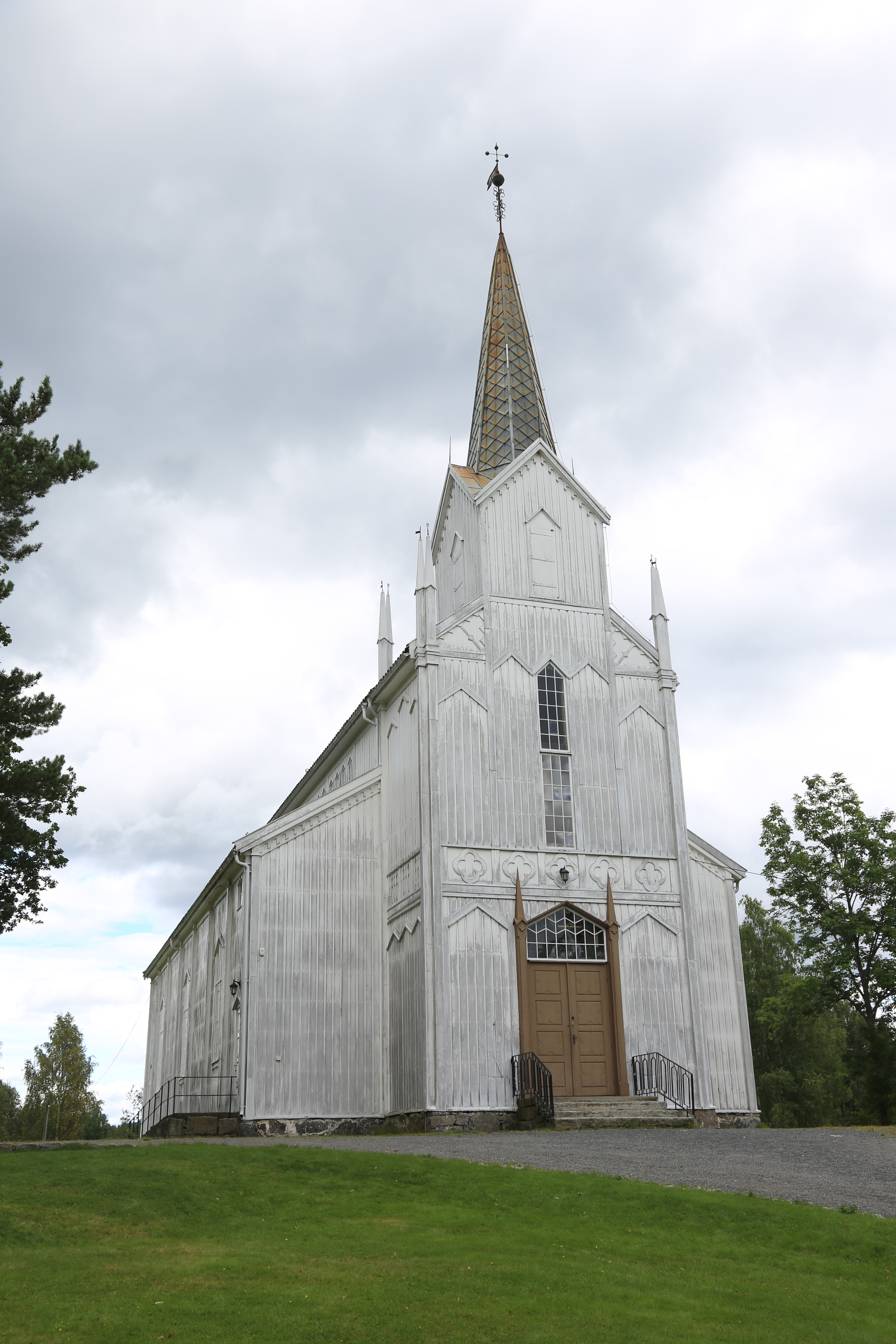 Gjerstad church.